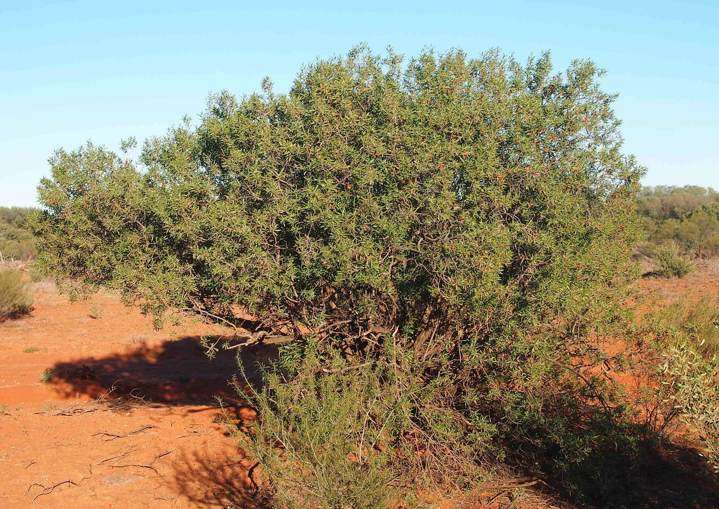 Eremophla neglecta